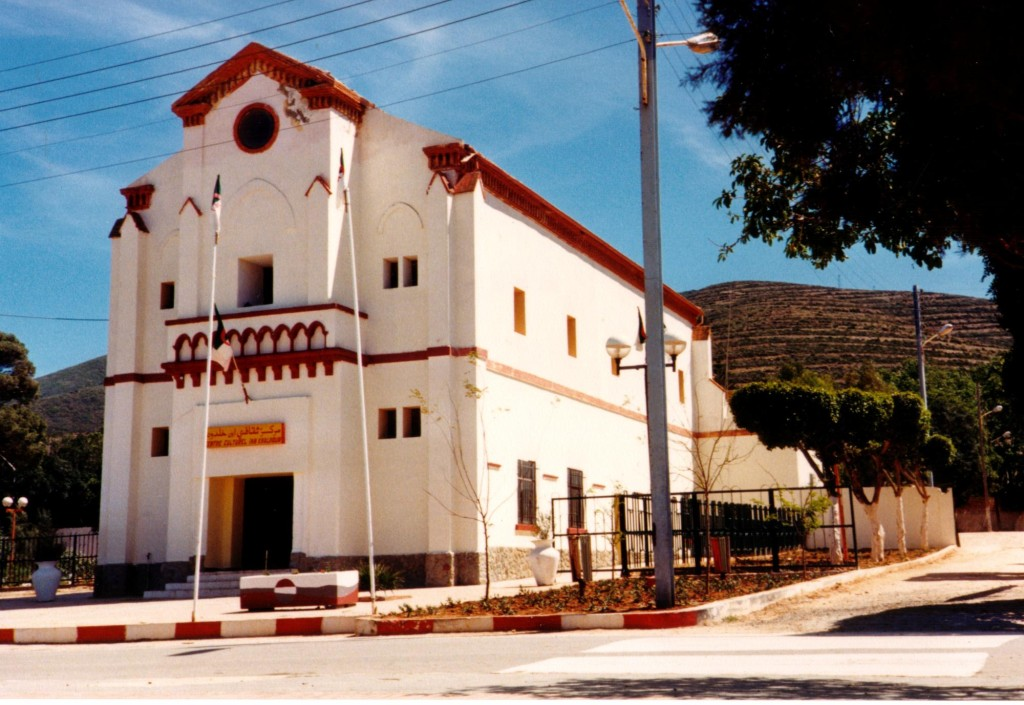 Old Church of Bousfer (now a cultural center).